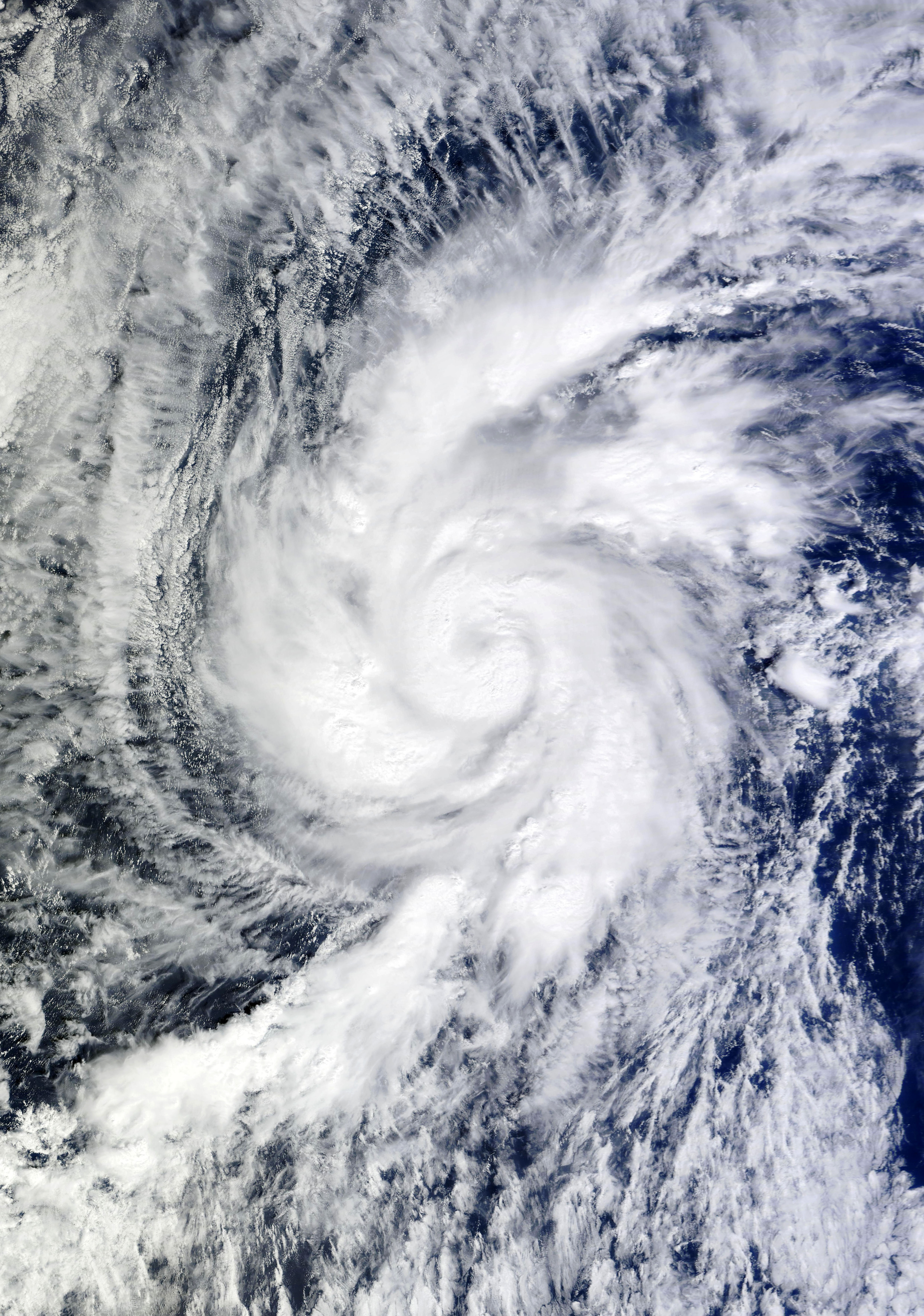 Hurricane Kenneth on November 21, 2011. Sustained winds at the time were about 80 mph.